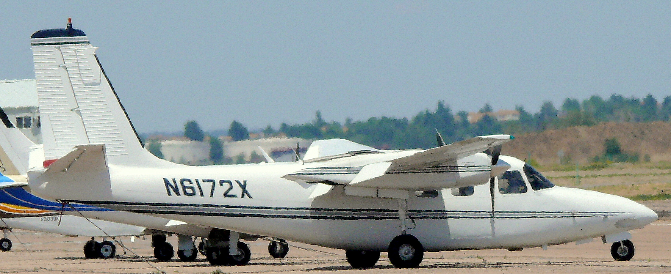 Aero Commander 500-B at Colorado Springs Airport